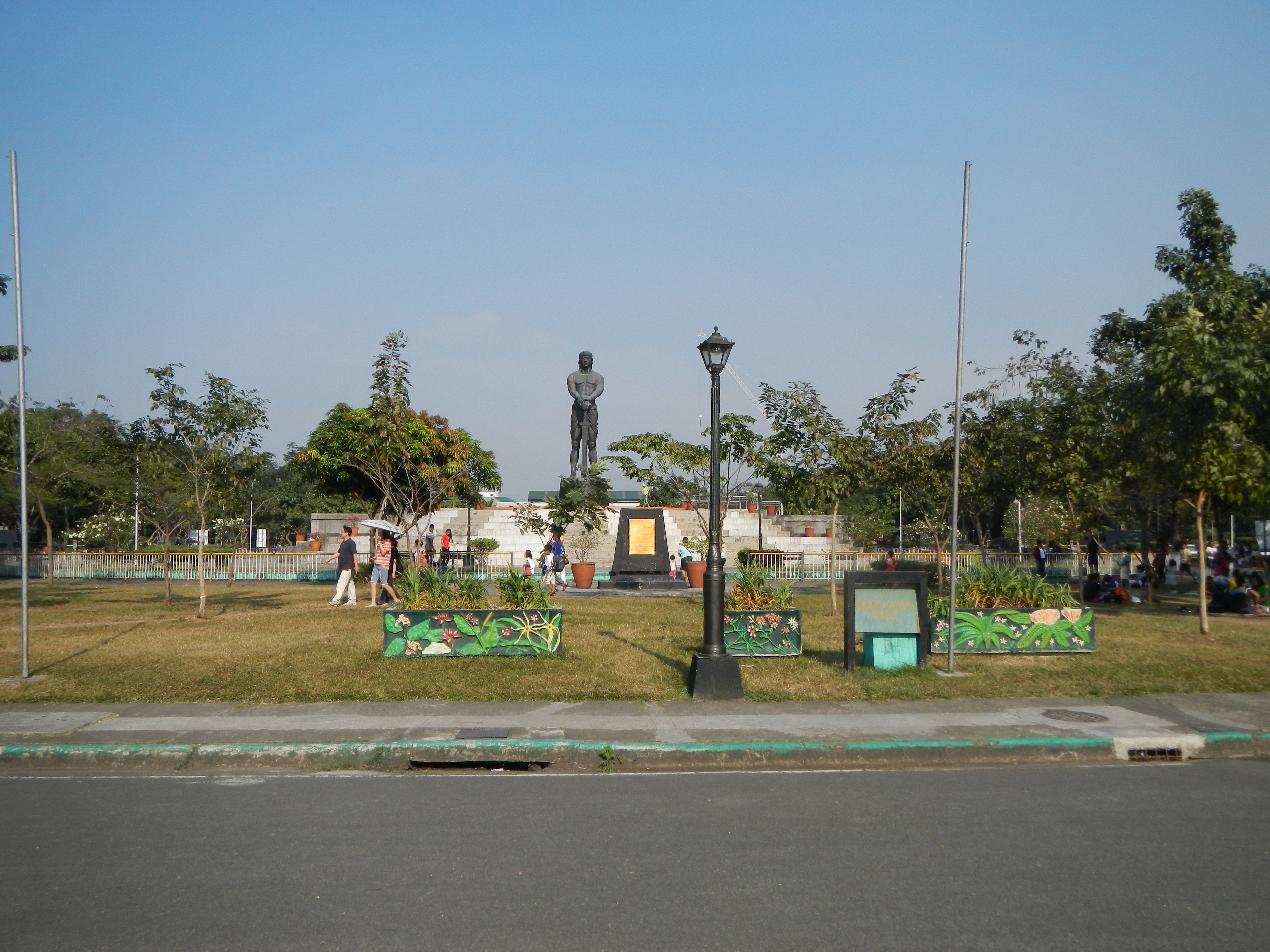 Upload Wizard photos of -- (general description of landmarks, town, church) - Rizal Park[1] also Luneta Park or colloquially Luneta, is an historical urban park located along Roxas Boulevard, [2] City of Manila, Philippines, adjacent to the old walled city of Intramuros. [3] - the Statue of the Sentinel of Freedom February 5, 2004 sculptor is Juan Sajid Imao - [4] - 30-foot bronze statue of Lapu-Lapu, at the Teodoro F. Valencia Circle, Rizal Park in ManilaLapu-Lapu fl. 1521 was a ruler of Mactan, an island in the Visayas, Philippines, who is known as the first native of the archipelago to have resisted Spanish colonization - List of public art in Metro Manila [5] - the Department of Tourism (Philippines)[6] old building which is presently under the National Museum of the Philippines [7] Padre Burgos Avenue, [8] Rizal Park, Ermita, Manila- now transferred to its new Office at 351 Senator Gil Puyat Avenue Makati City, Philippines, 1200.